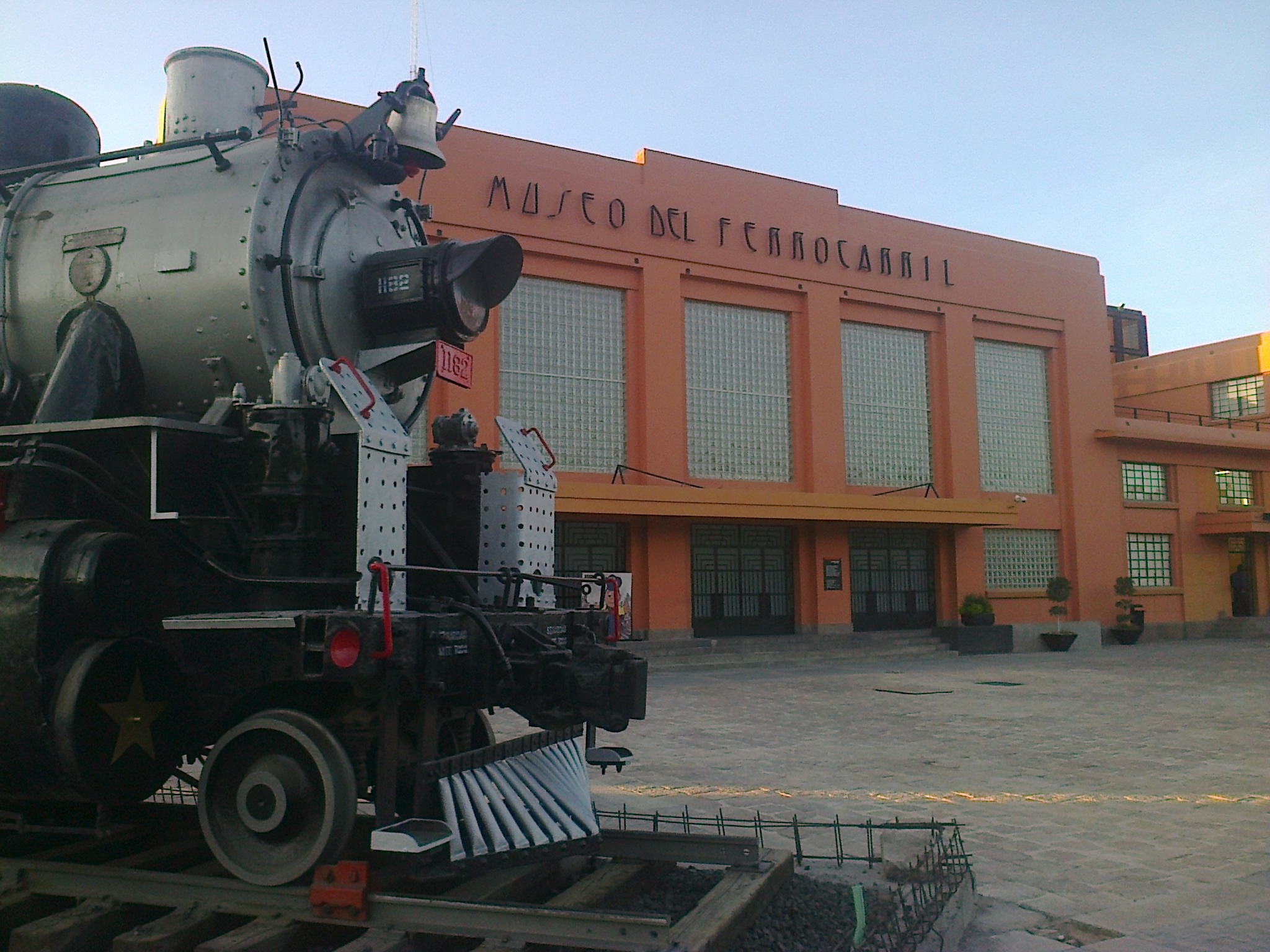 Museo del Ferrocarril de SLP